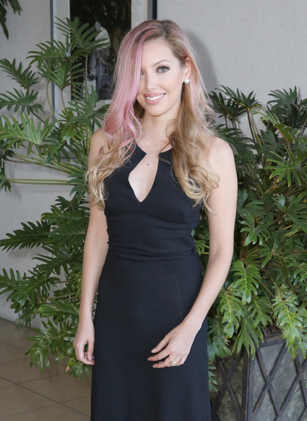 Dalal Bruchmann (c) Rachel Framingheddu